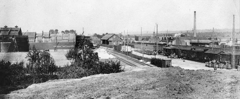 Overzicht van de zinkwitfabriek van de Maastrichtsche Zinkwit Maatschappij in Eijsden, Limburg. In het midden het station van Eijsden. Fotocollectie RHCL Maastricht, GAM 33401.